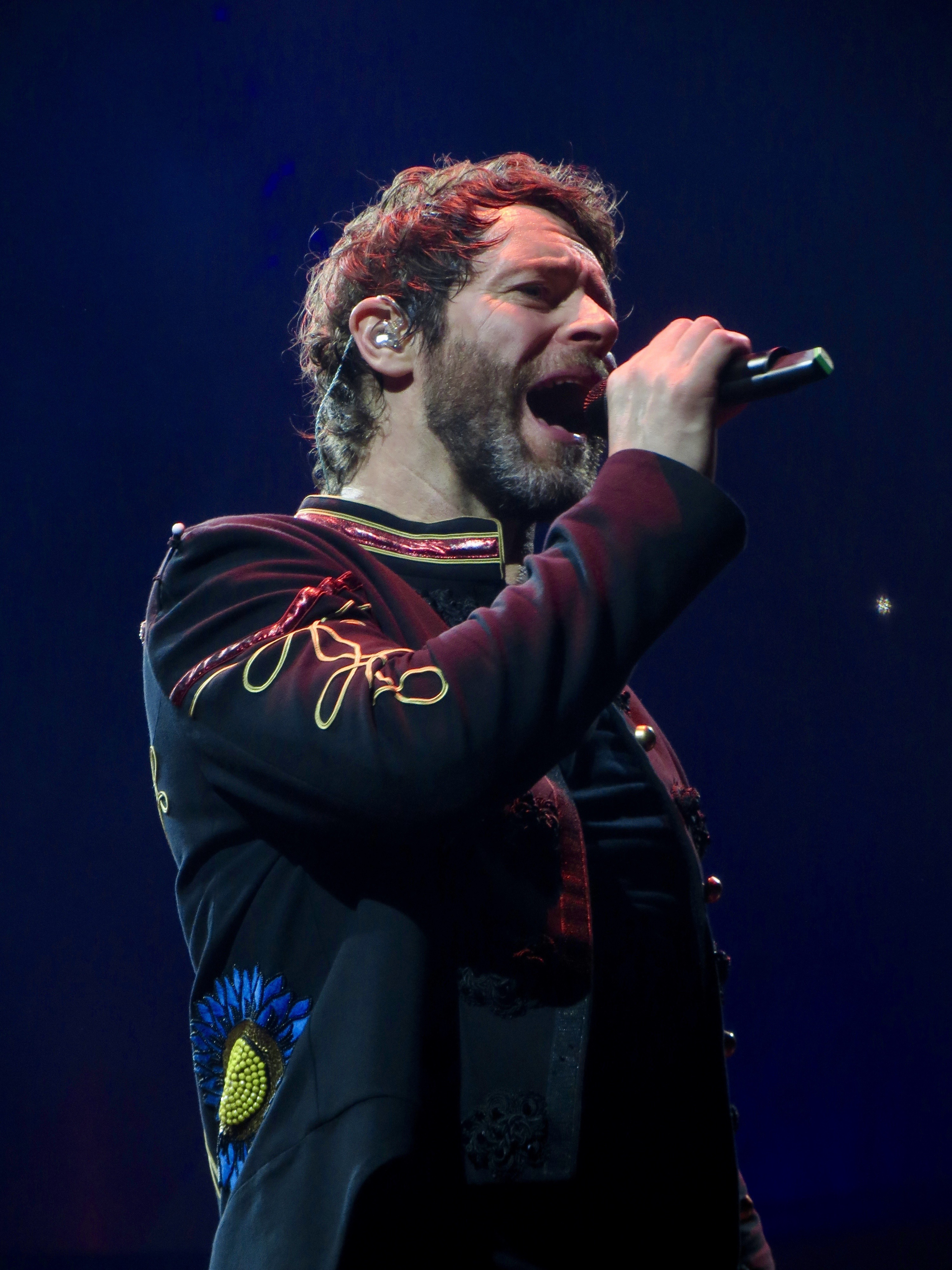 Howard Donald performing at the SSE Hydro in Glasgow during their Wonderland Live tour in 2017